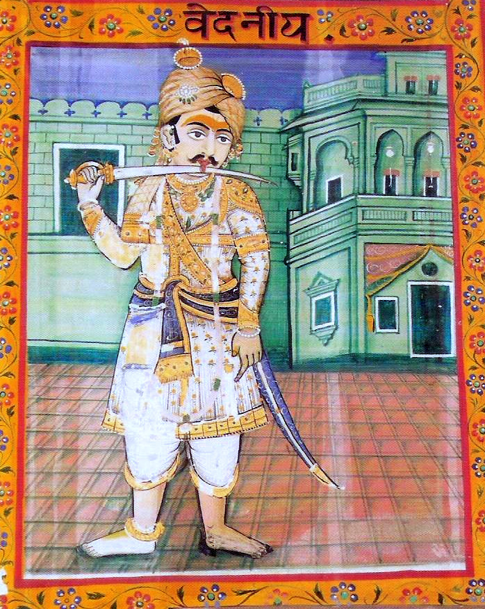 Mural Painting form Jain Digambara Temple for Jaipur depicting Vedaniya Karma (Pleasure and Pain inducing karmas.) This picture shows a person licking honey from Sword. This induces boths pain and pleasure